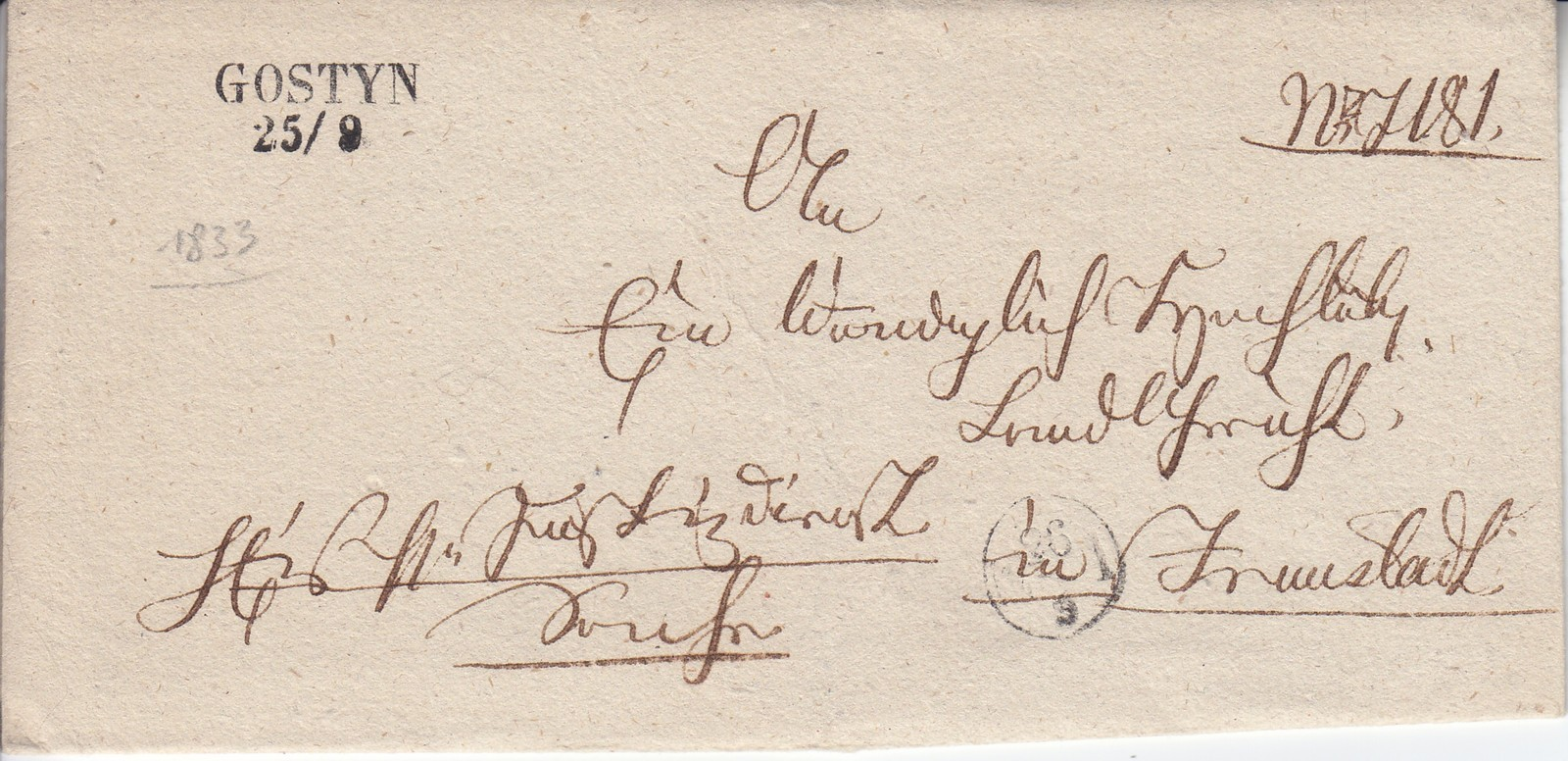 1833 stampless cover posted in Gostyń, Poland to Fraustadt, a city that was in Germany but is now in Poland and is now known as Wschowa